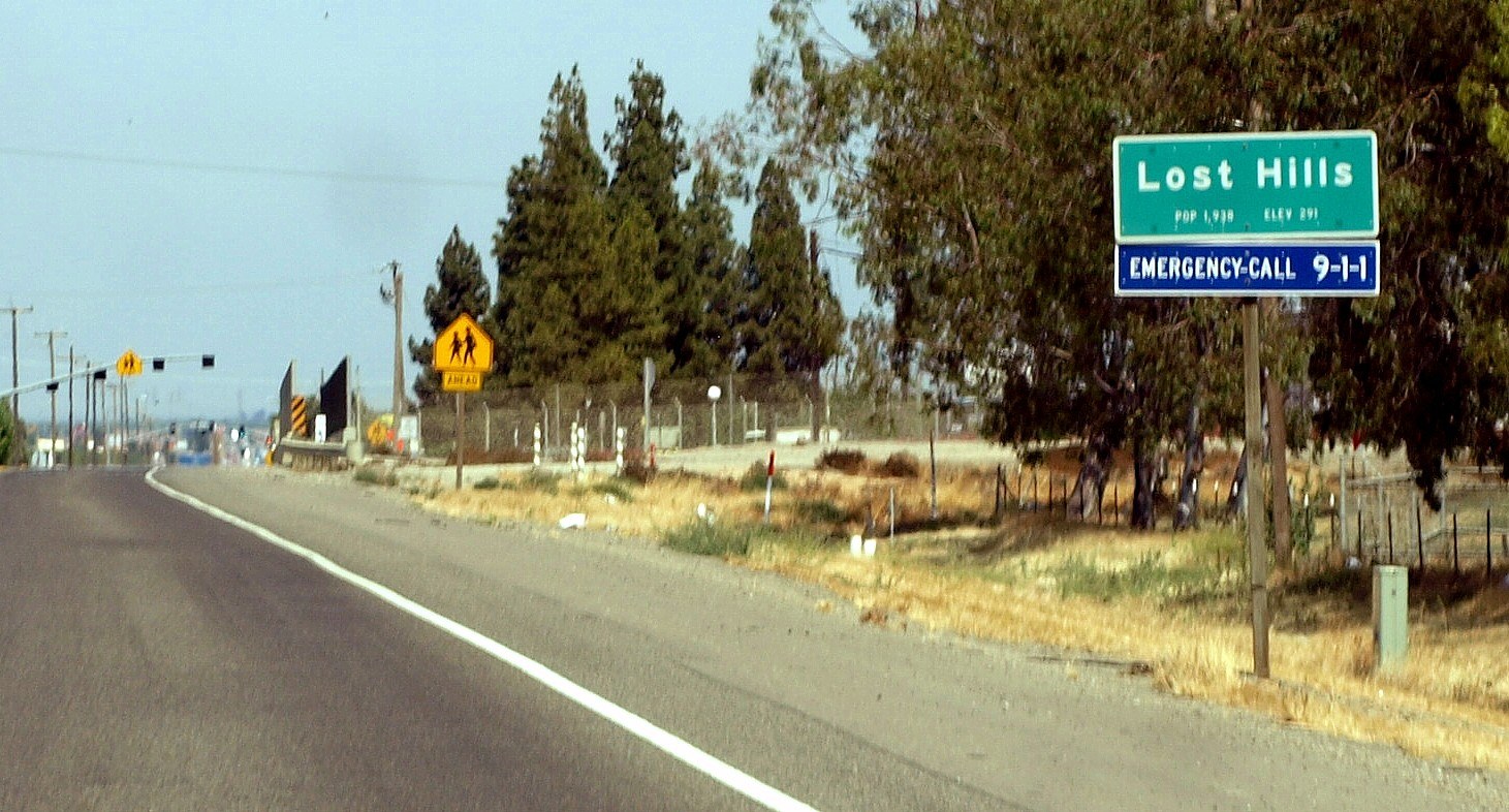 Western town limits sign for the census-designated place of Lost Hills, California as seen from the eastbound lane of State Route 46 (Paso Robles Highway) between Pavilion Way and the Governor Edmund G. Brown California Aqueduct crossing. View looking east. This photograph was taken with an Olympus E-510 DSLR camera and edited (color balance, brightness, contrast, saturation, sharpness) using ArcSoft PhotoStudio 5.5)